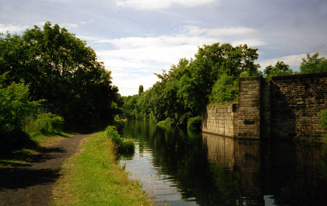 Remains of a railway bridge over Mirfield Cut This bridge carried a long-defunct L&Y branch, called the Cleckheaton branch, which ran from Mirfield on the L&Y Main Line, served a station at Northorpe (North Road), and then rejoined the L&Y on its Wakefield to Bradford line.